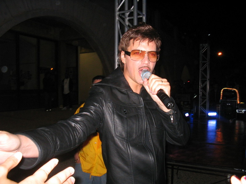 Gunther performing at University of California, Santa Barbara